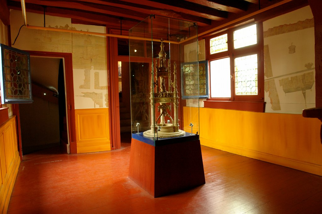 The Gros Horloge